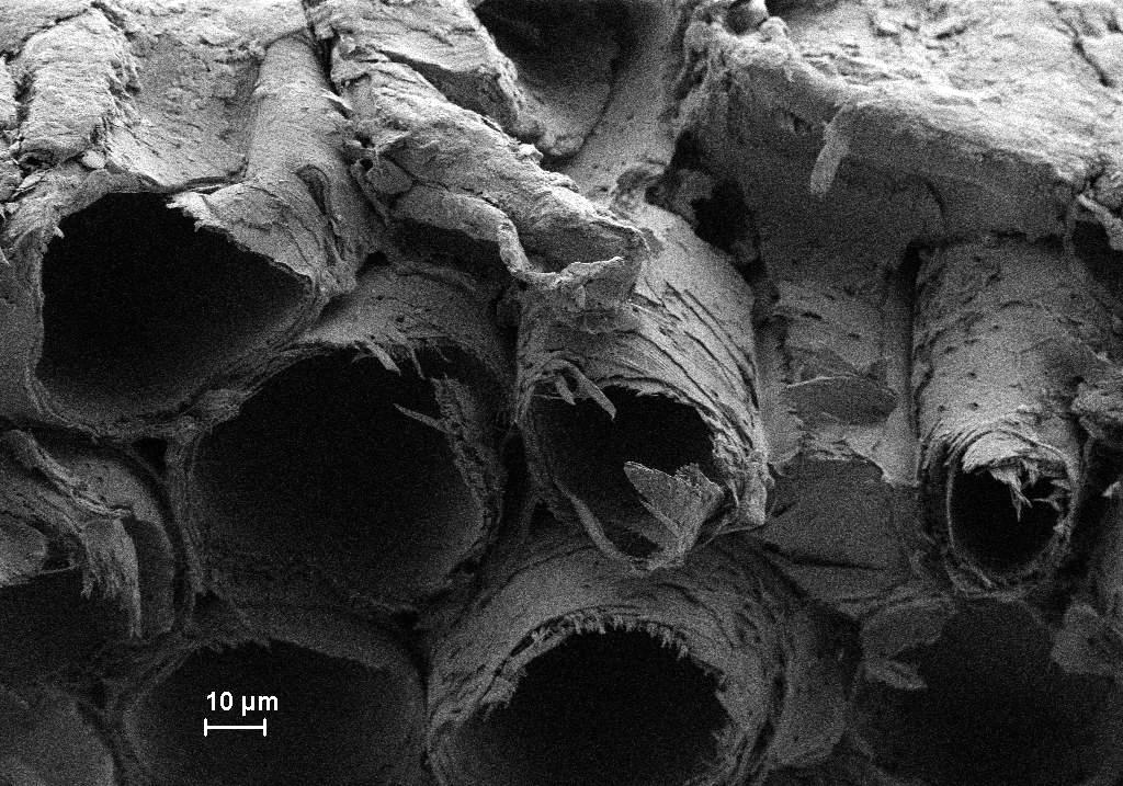 Scanning electron microscope image of a toothpick. To obtain this image, the toothpick was broken in two parts. This picture is an image of a small part of created toothpick cross-section. Main water transport vessels of wood called xylems can be clearly seen on this picture. This picture will be good illustration for this wikipedia article